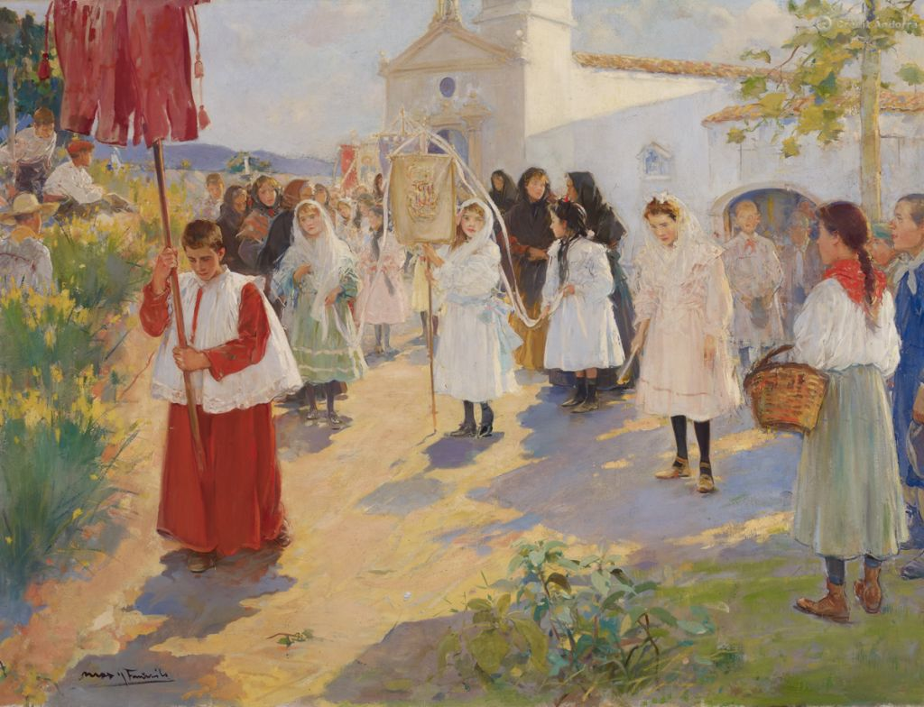 Procession to the Chapel of Vinyet